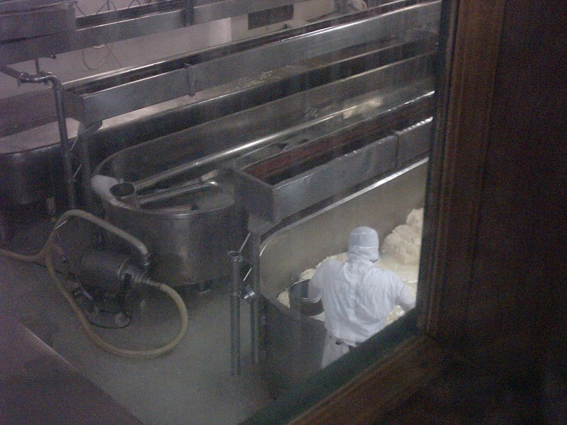 Production of cheese